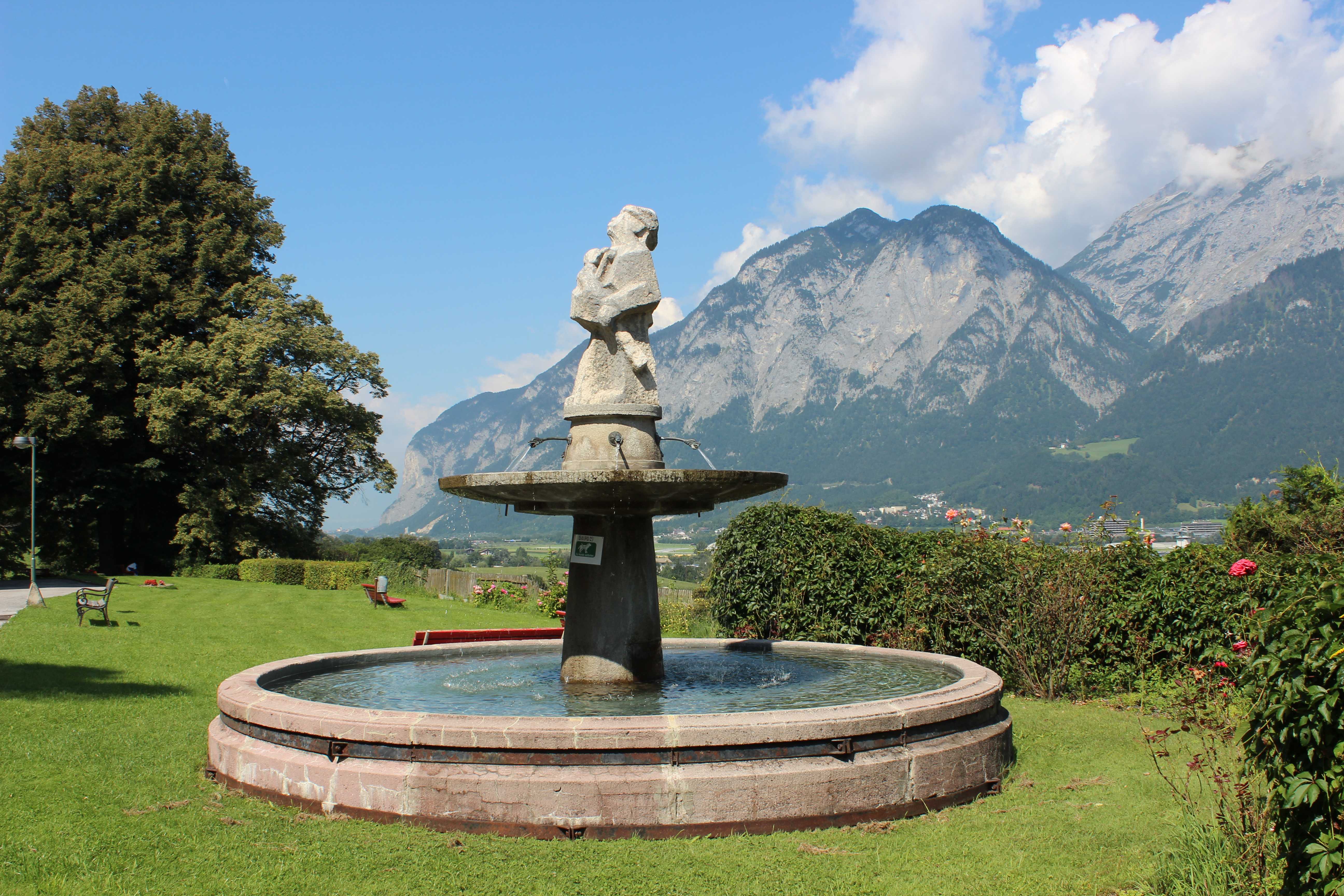 Fountain in front of Schloss Mentlberg in Innsbruck. The Martinswand in the background.